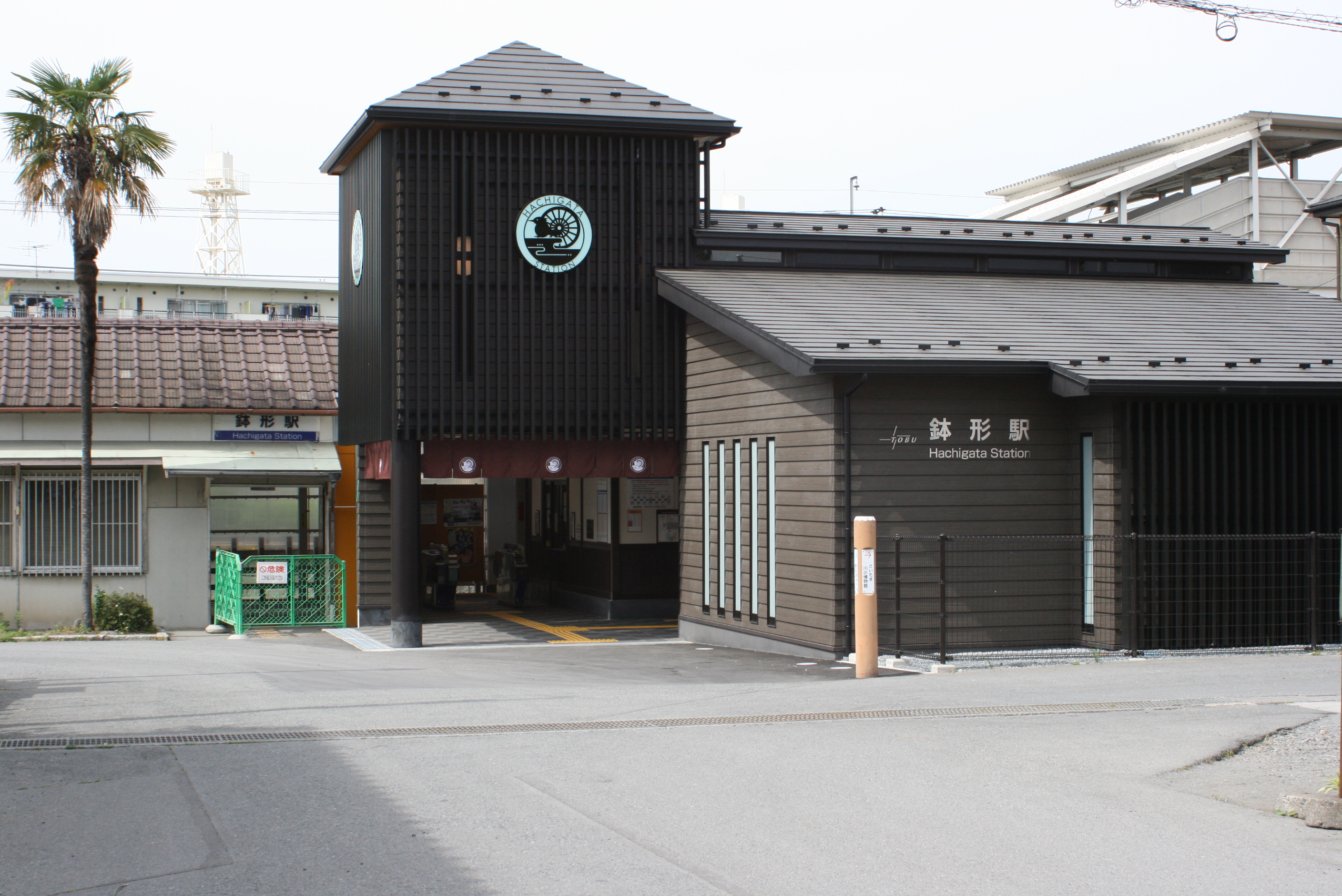 Hachigata Station on the Tobu Tojo Line after rebuilding in 2015